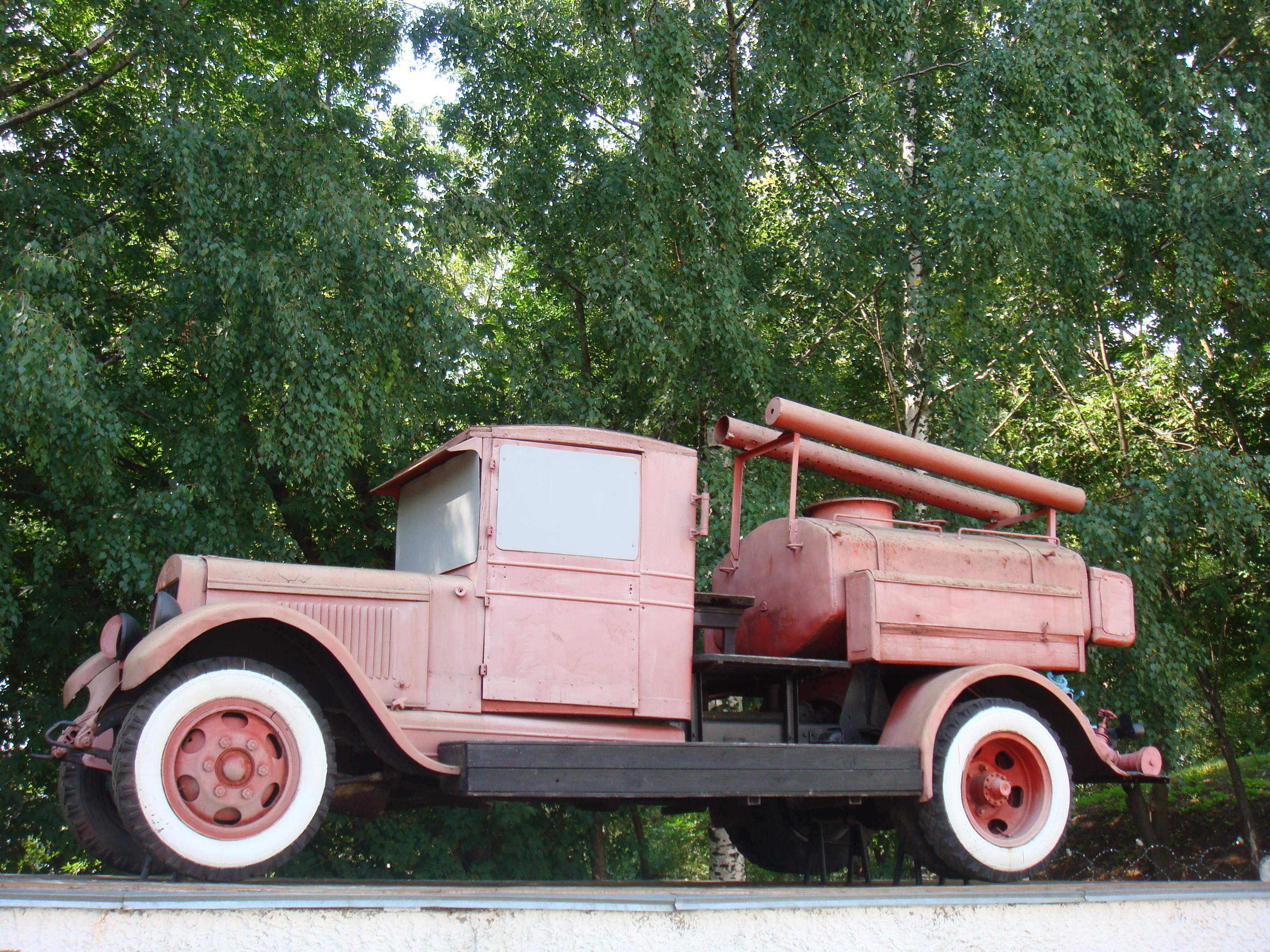 zis-5 firetruck in Kirov (Vyatka)